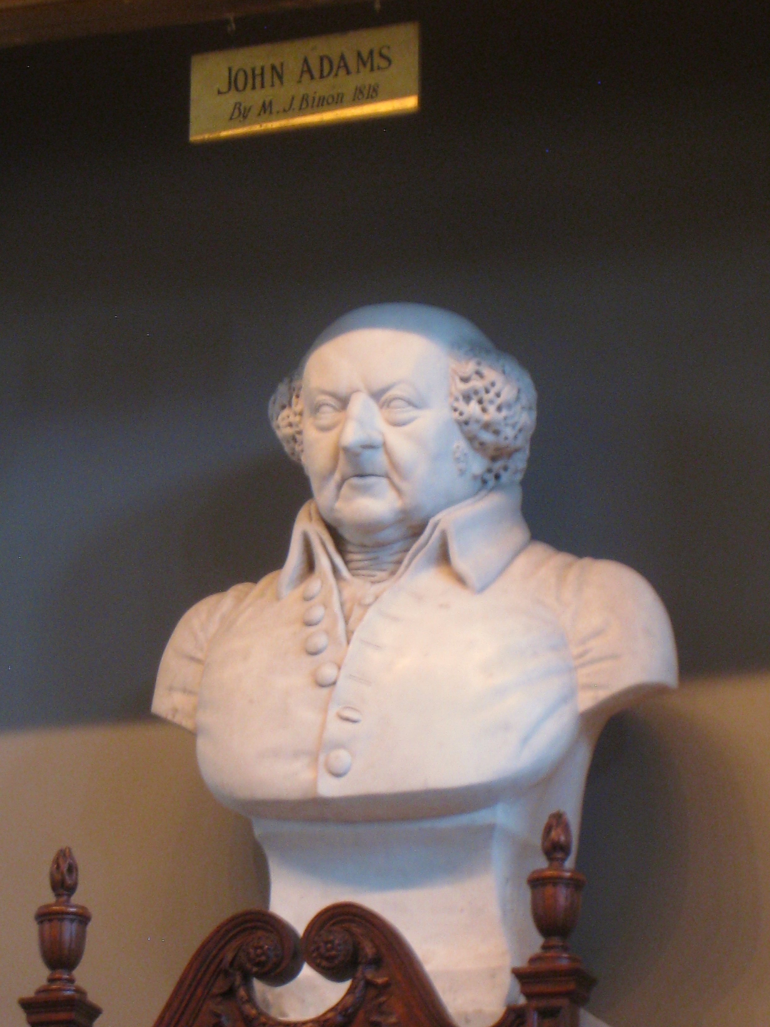 Bust of John Adams by Jean-Baptiste Binon (1775-1875?), located within Faneuil Hall, Boston, Massachusetts, USA.